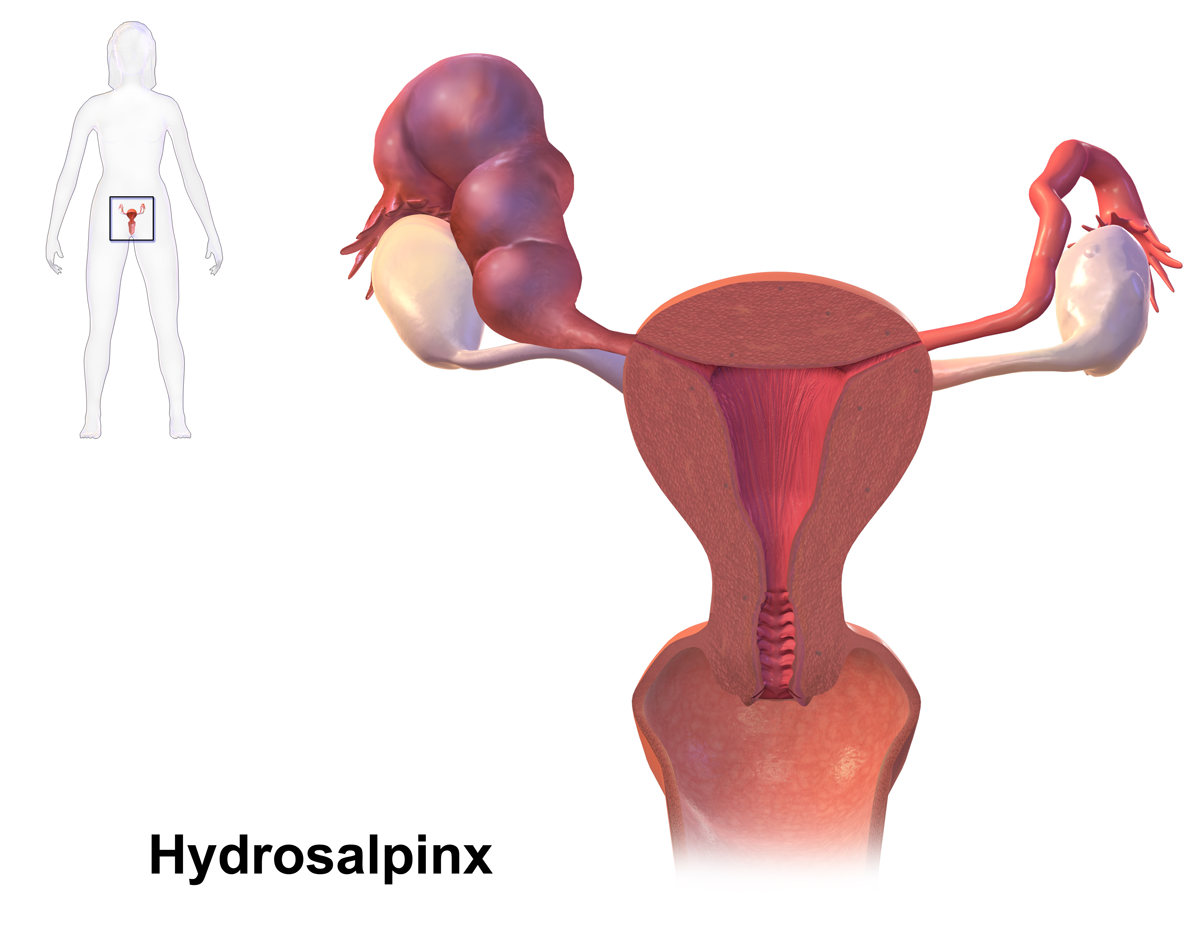 Hydrosalpinx. Animation in the reference.[1] This image was donated by Blausen Medical.